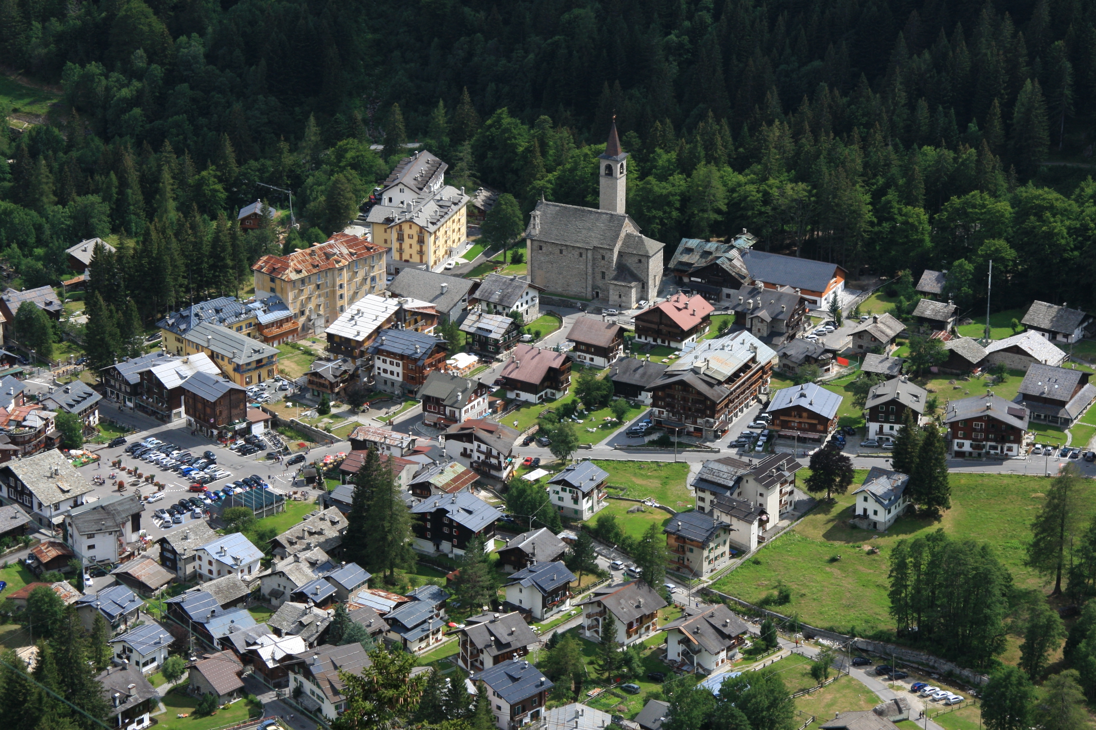 Italy 2010